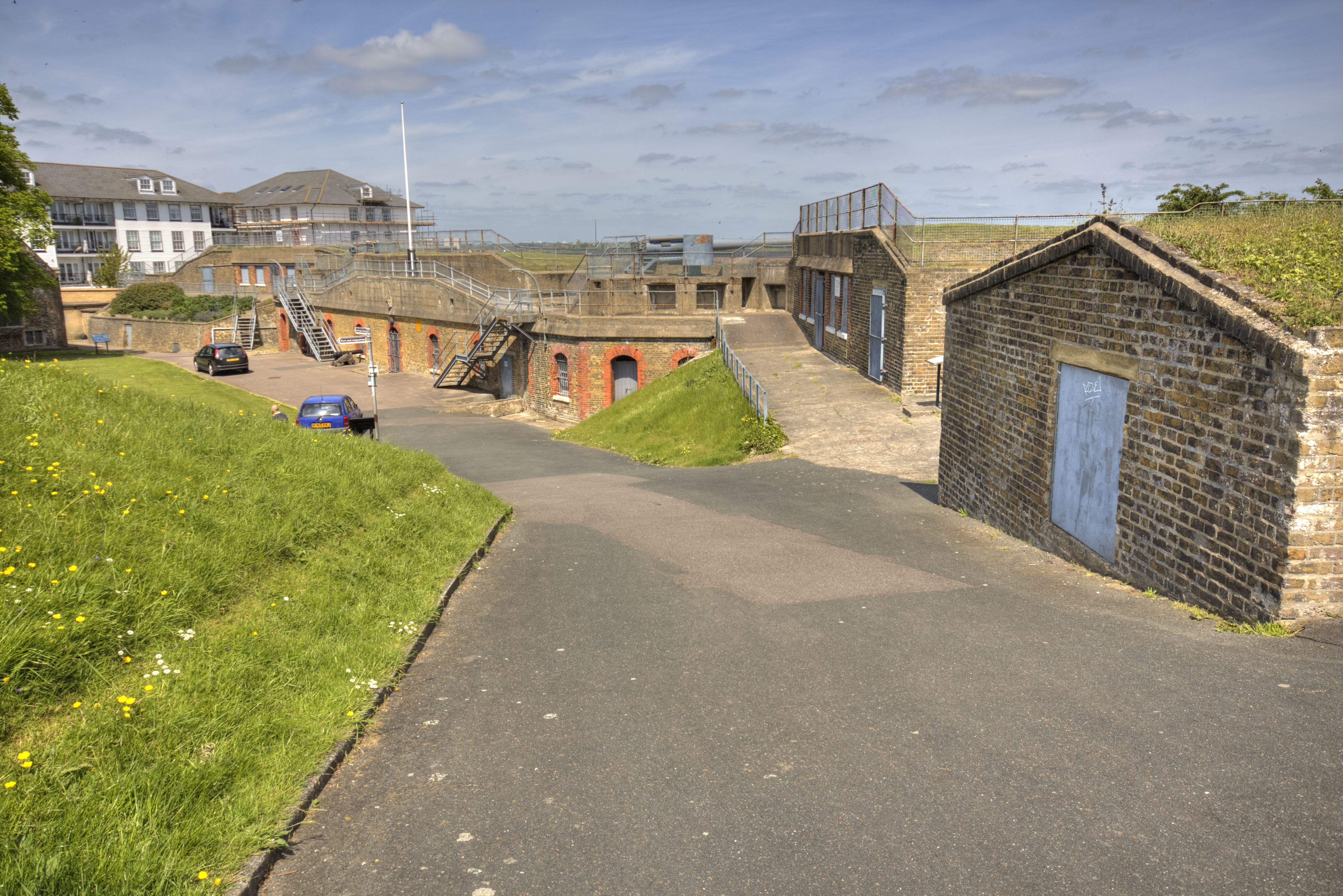 Exterior view of New Tavern Fort magazines